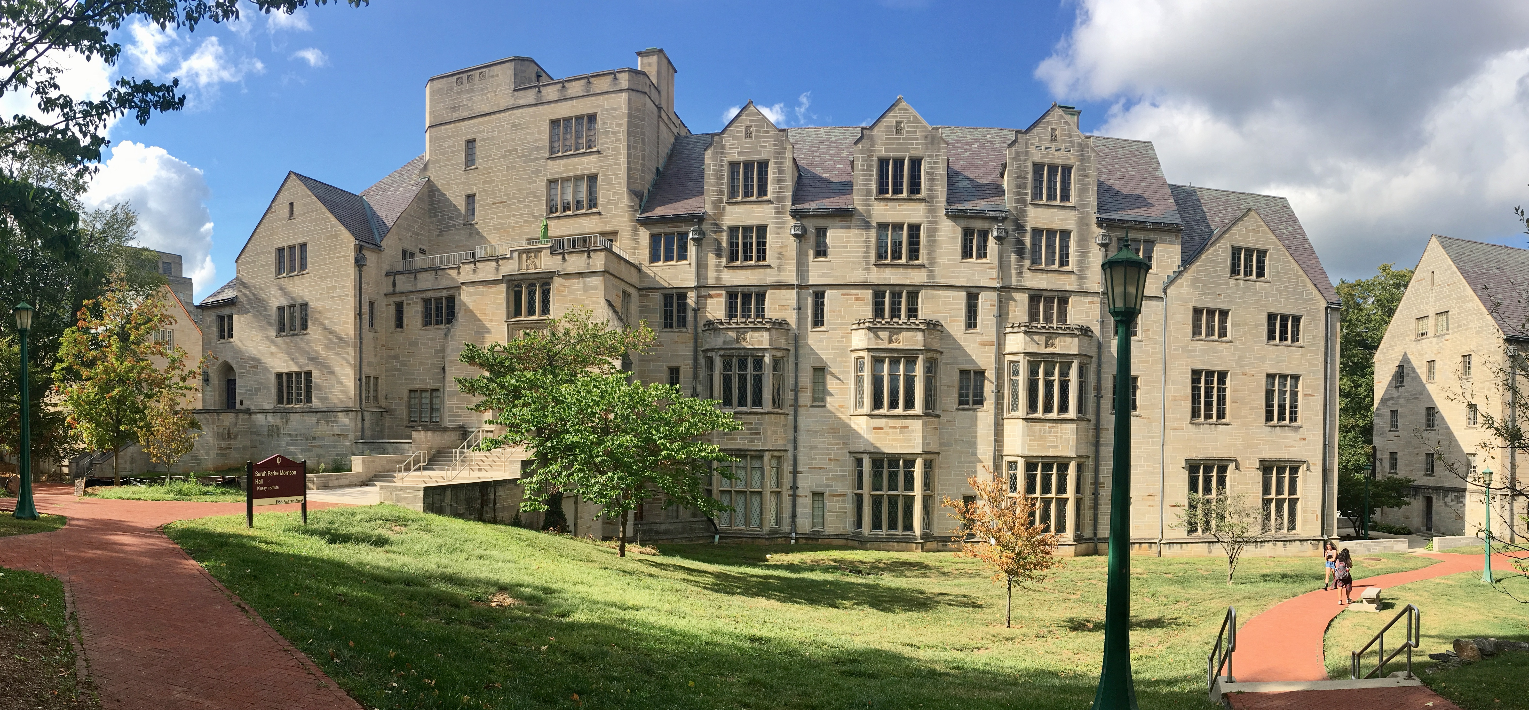 Named after the first woman to be a student and later a professor at Indiana University, Morrison Hall is currently home to the Archives of Traditional Music, the Kinsey Institute, and the Society for Ethnomusicology.